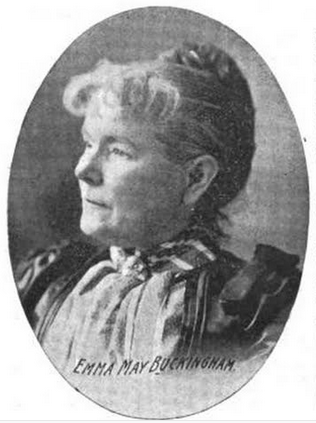 Emma May Buckingham, from a 1907 publication.